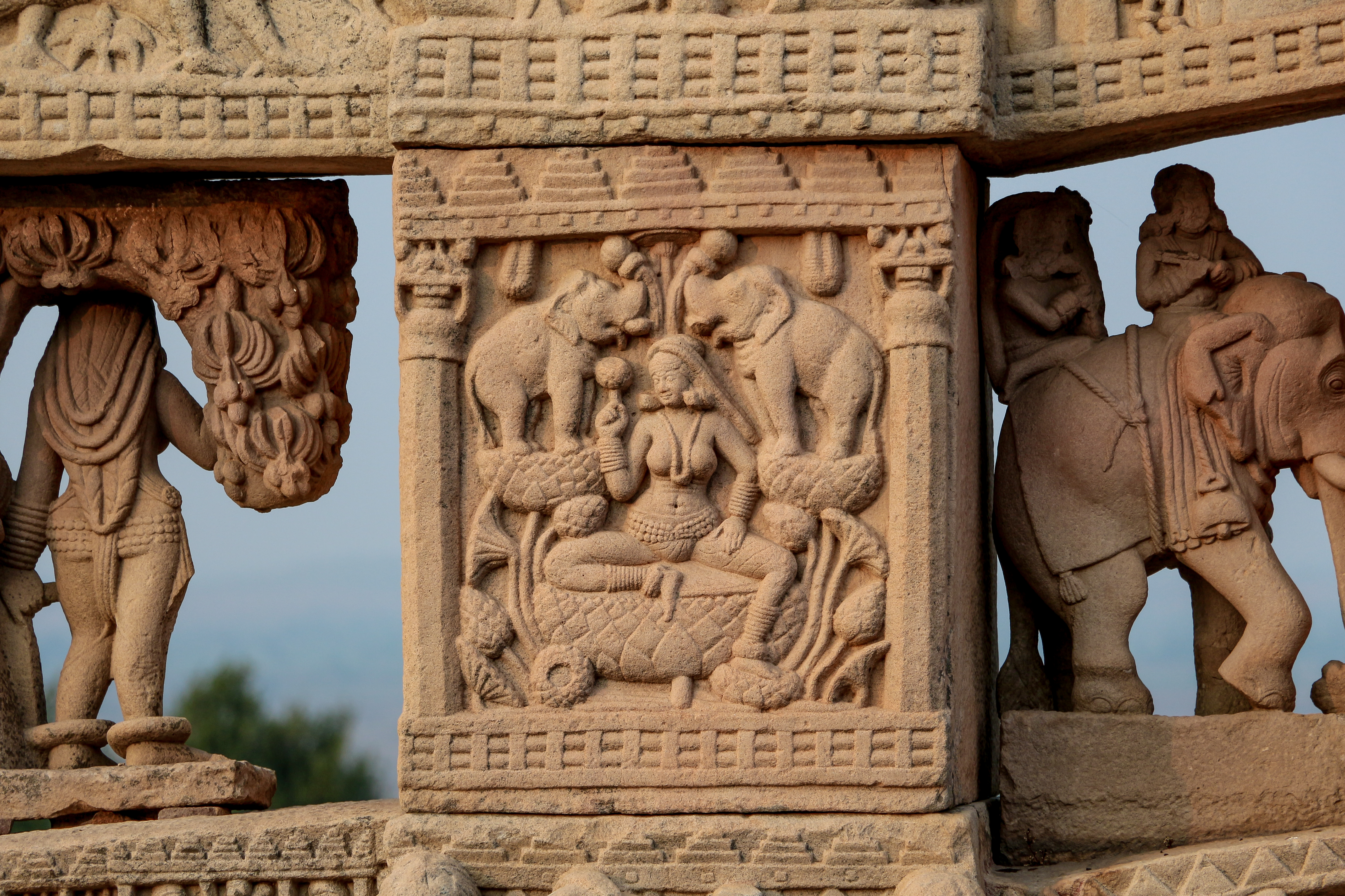 Carvings on the rear side of North Torana, Sanchi, India